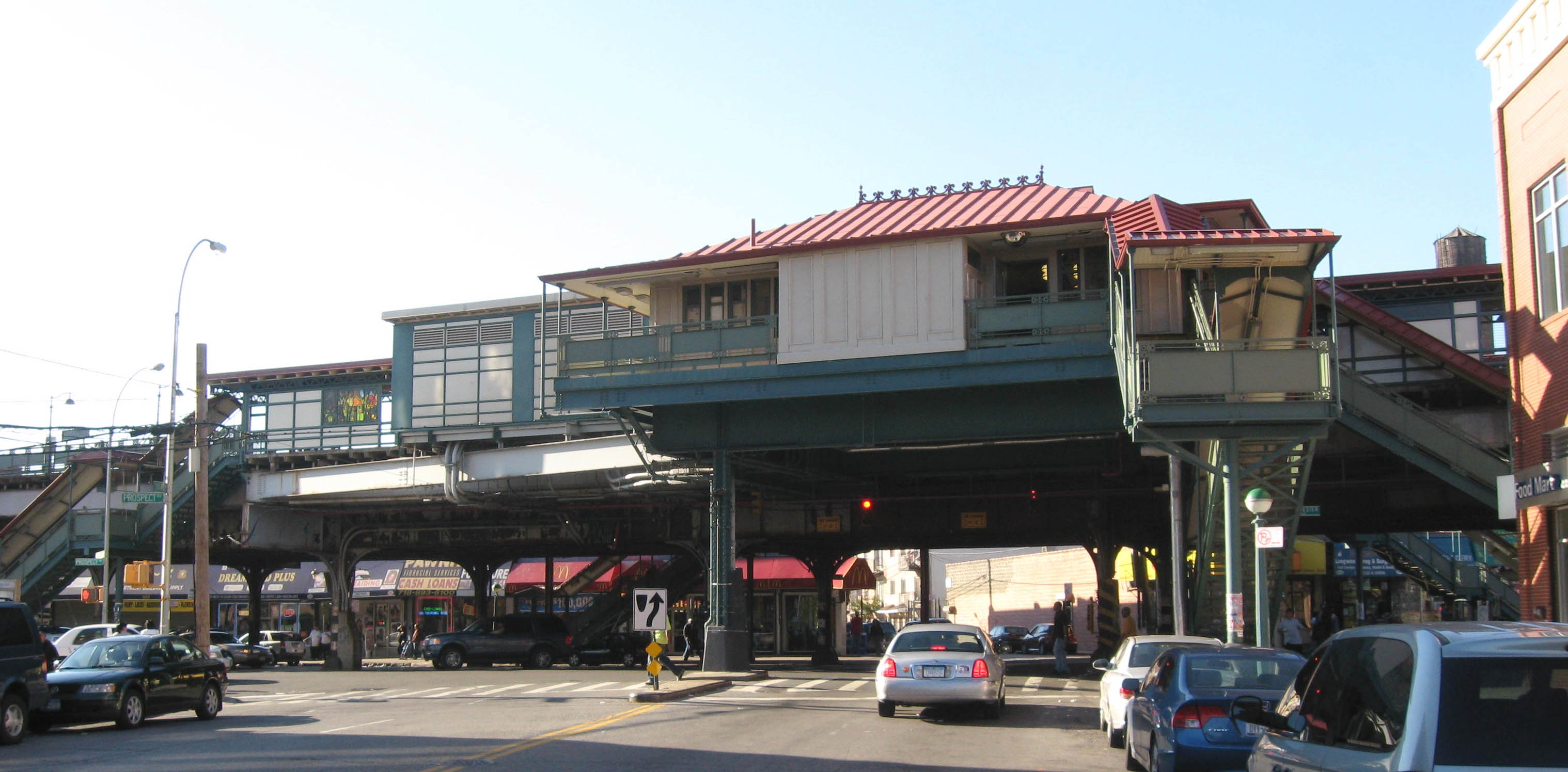 Looking northwest along Longwood Avenue at northbound side of Prospect Avenue (IRT White Plains Road Line) in Longwood on a sunny early afternoon.